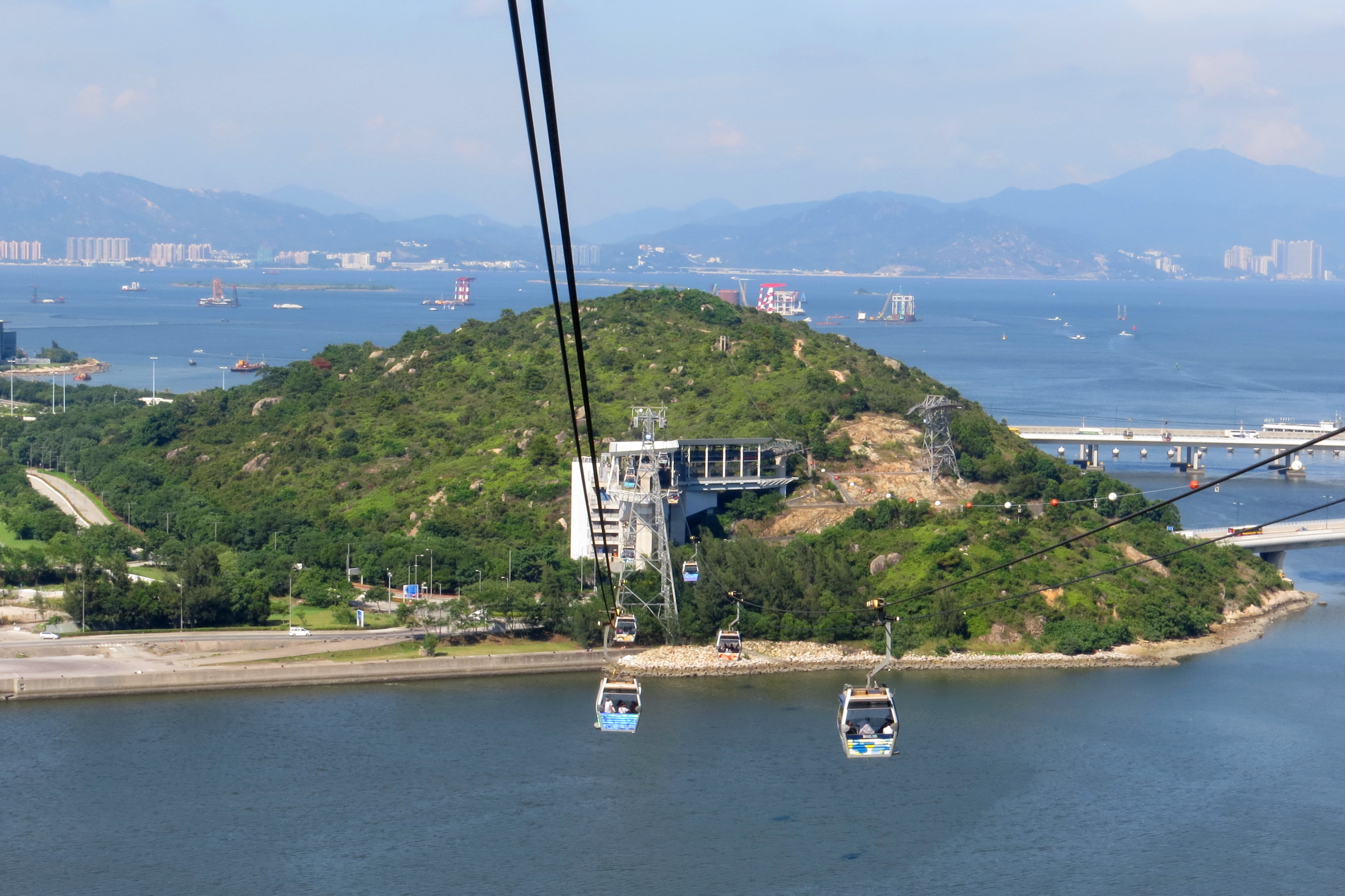 Scenic Hill, Chek Lap Kok, Lantau Island, Hong Kong.